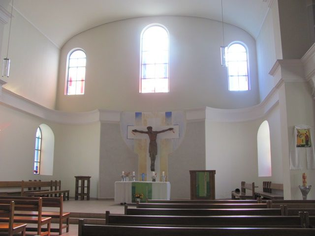 St. Catherine, Kiev